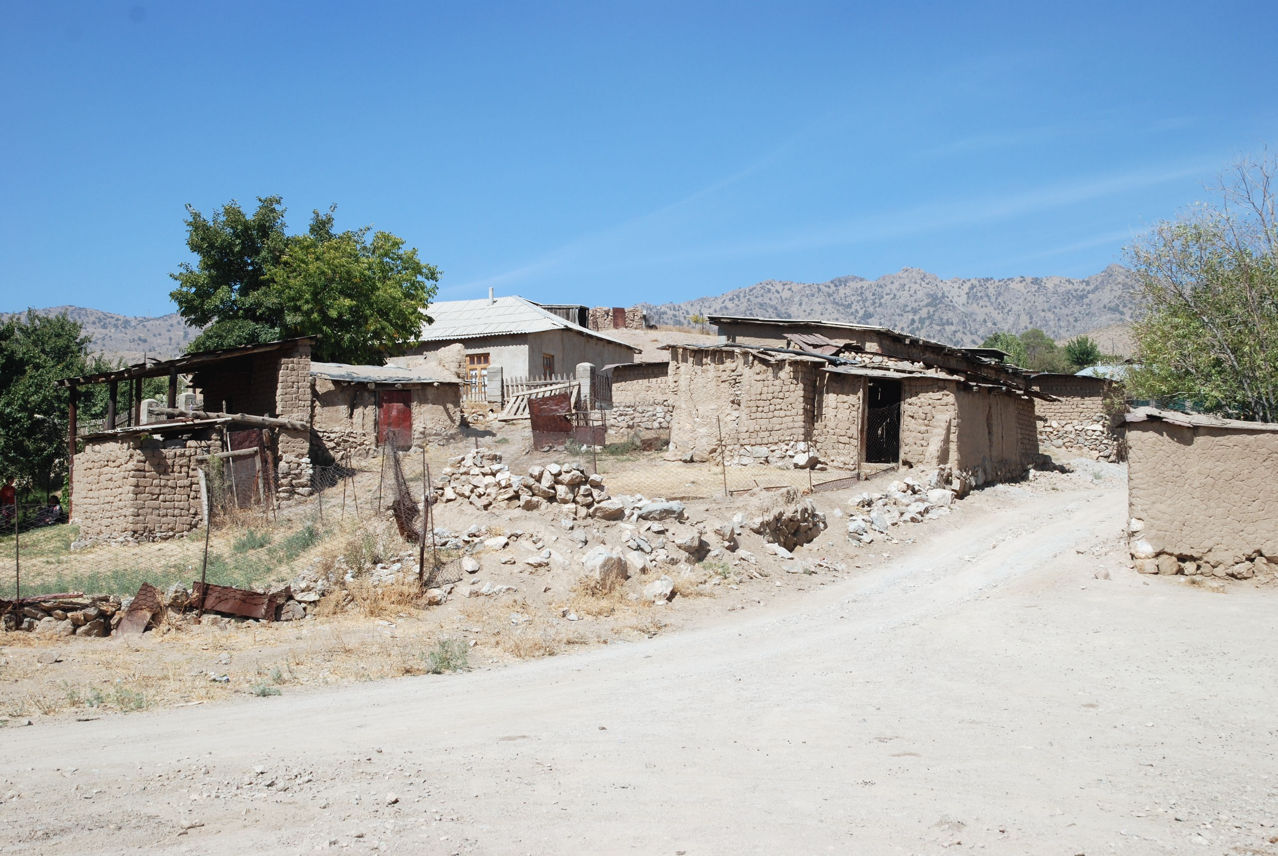 Taboshar, village houses north of center, Sughd province, Tajikistan